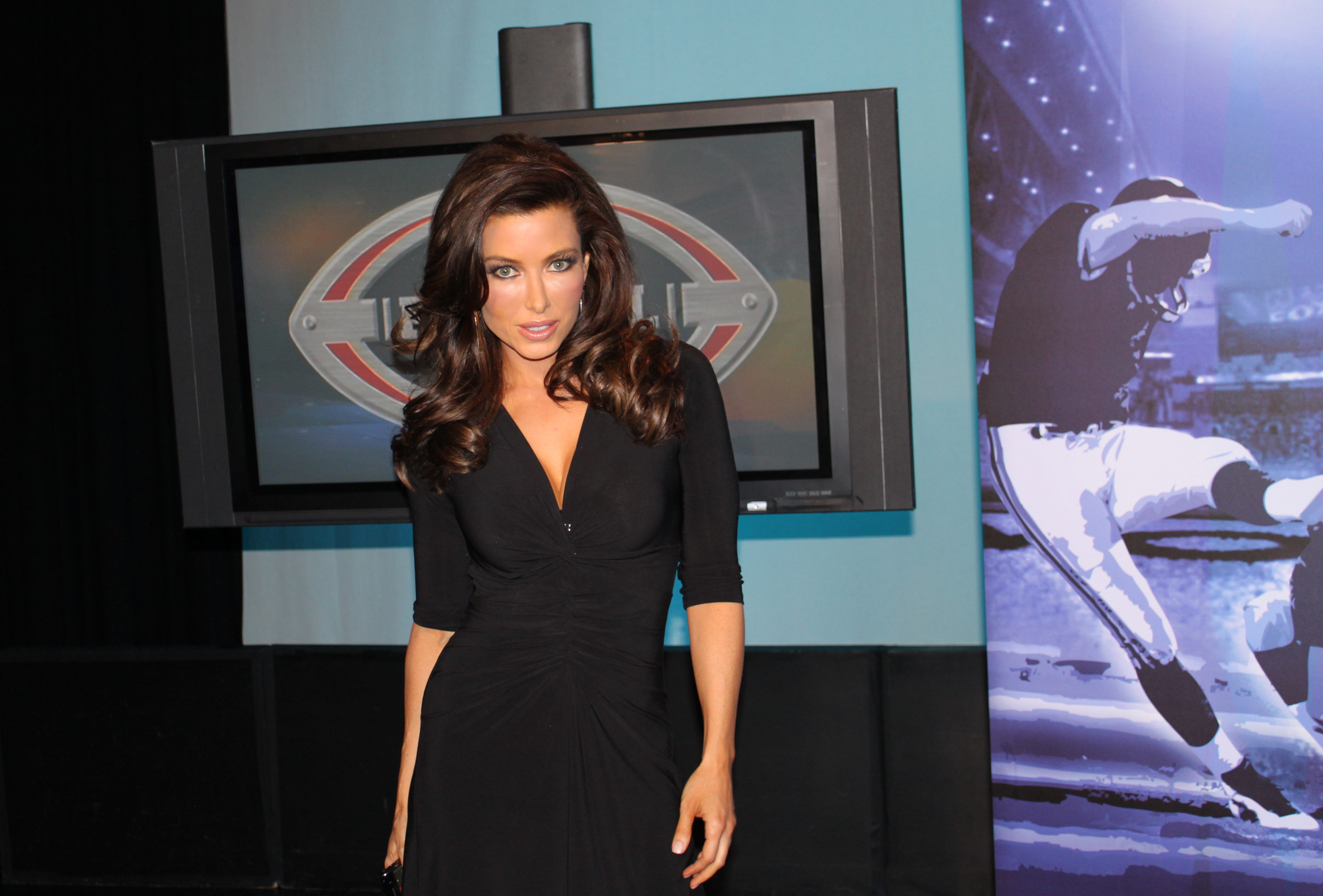 Sport reporter Rebecca Grant on set of FOX NFL Verizon Football Zone. Photo by Tencerpr. This photo is nowhere else on the internet.Tencerpr (talk) 05:31, 12 January 2011 (UTC)